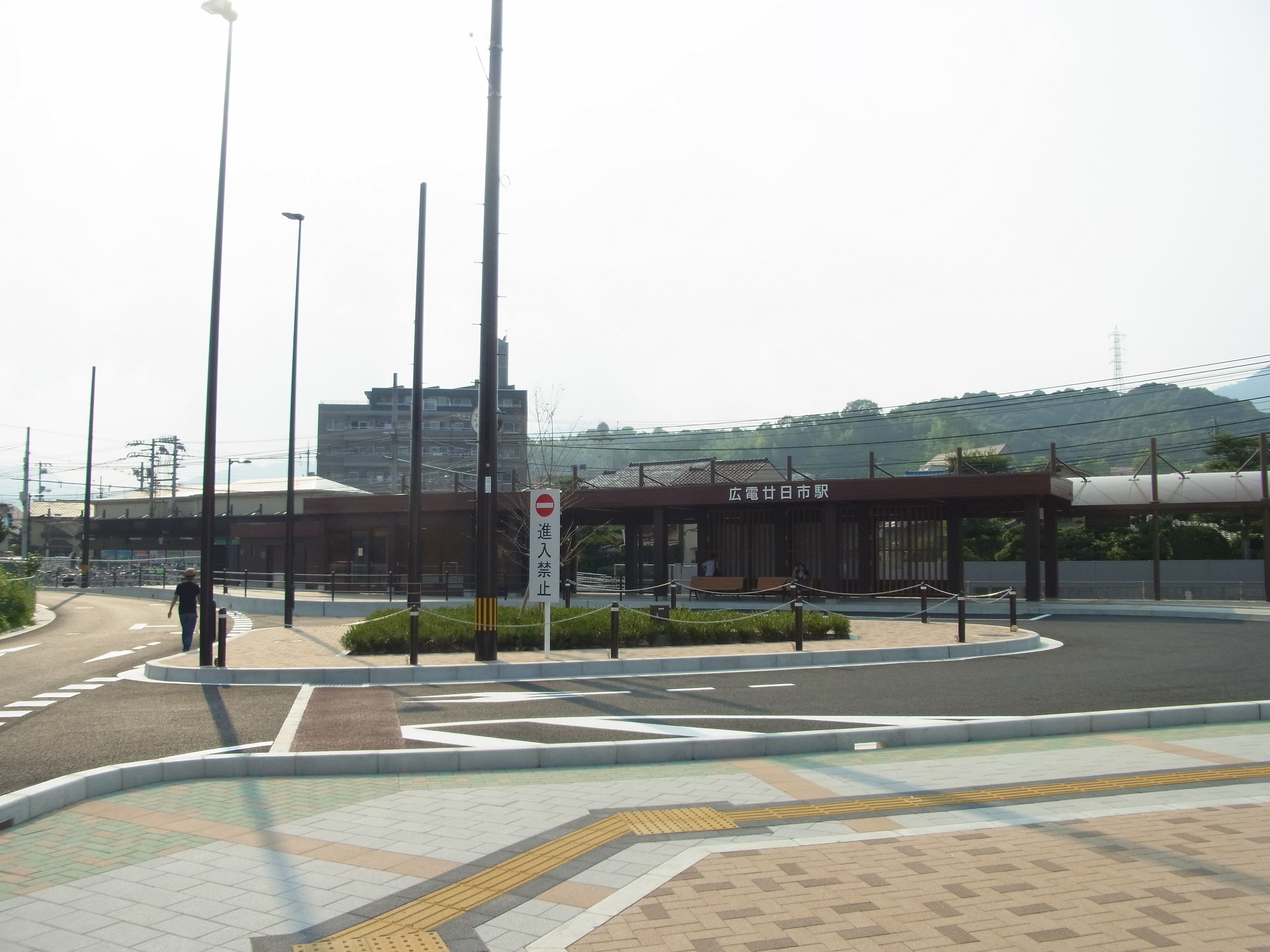 Hiroden-Hatsukaichi Station south side